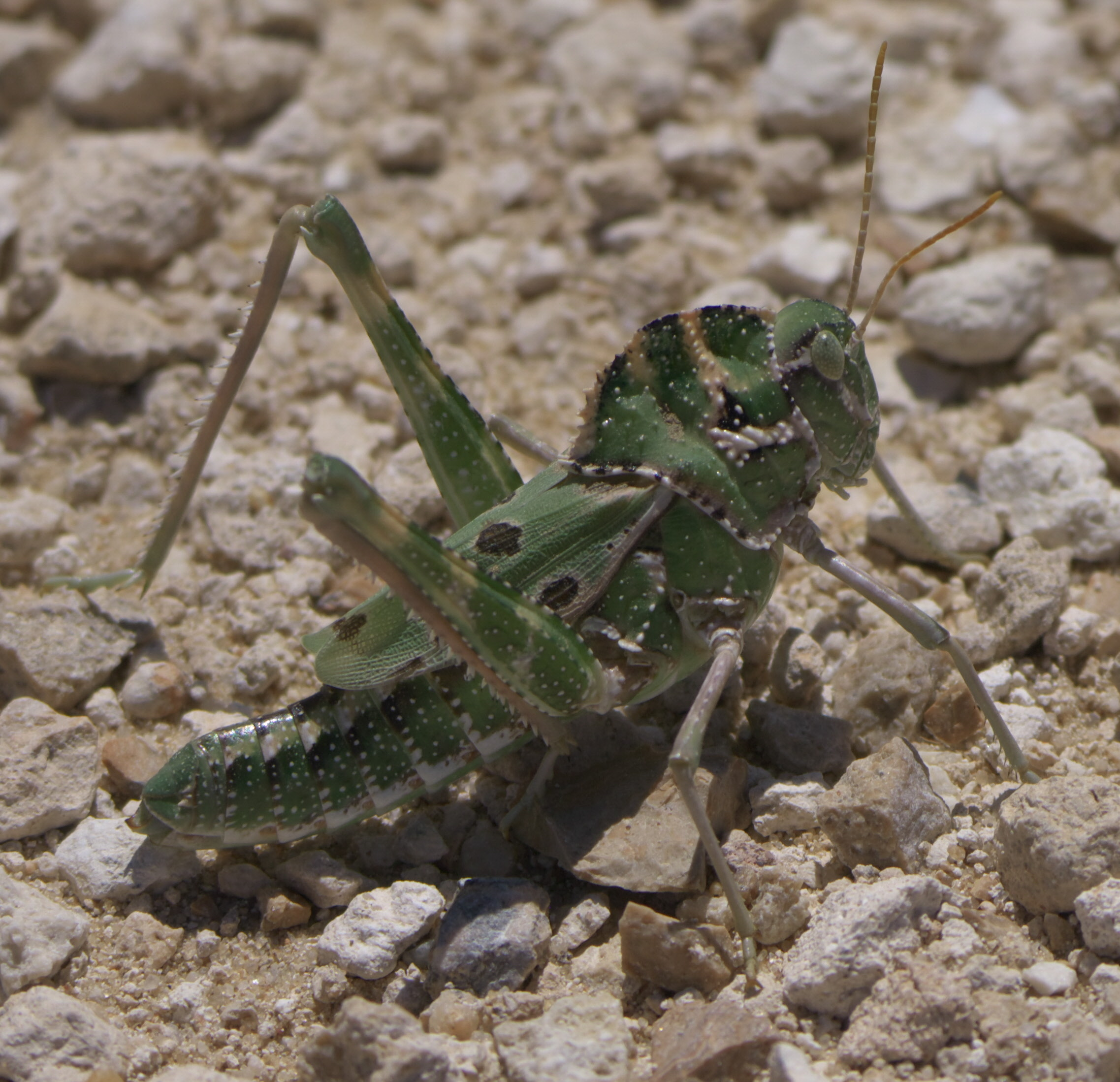 Tropidolophus formosus, Great Crested Grasshopper, ID Confidence: 93